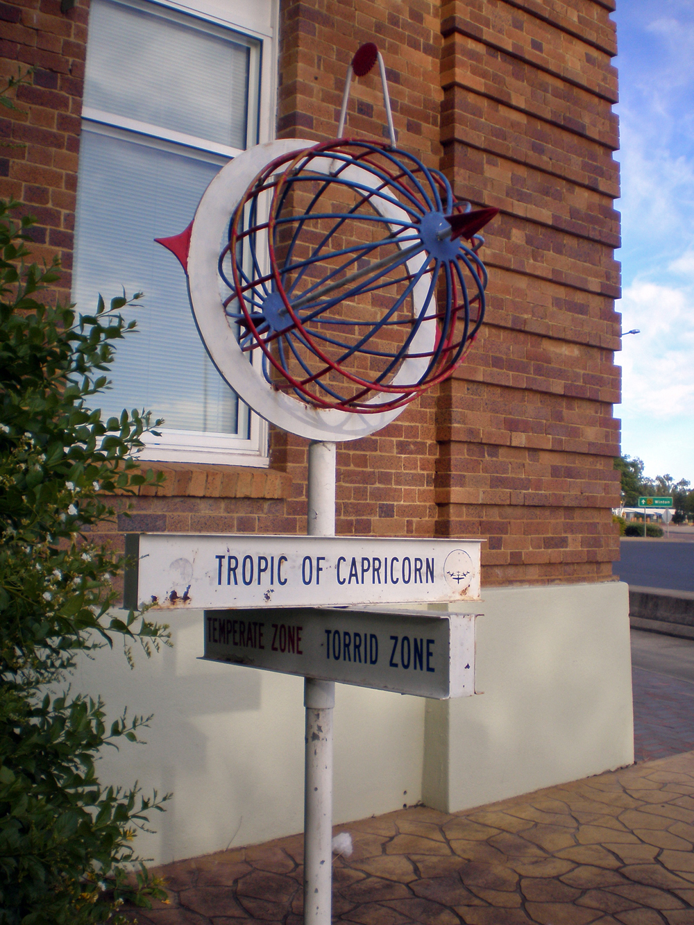 Tropic of Capricorn marker outside the Council Chambers, Longreach, Queensland, Australia.